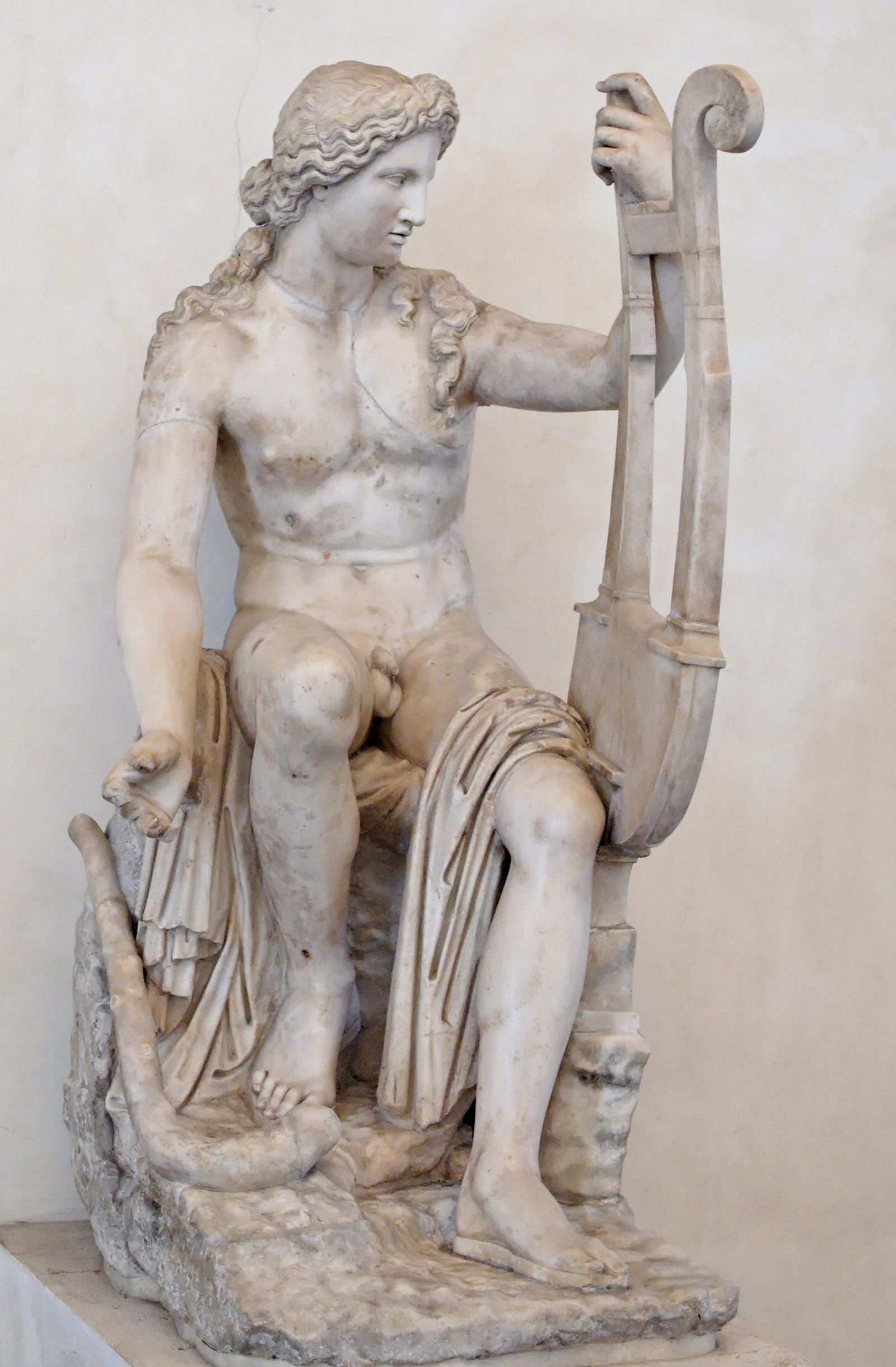 Apollo Kaitharoidos. Marble, original parts (torso and right leg): Roman copy from the Hadrianic period after an Hellenistic original. Heavily restored in the 17th century: head (after the Apollo Lykeios type), left arm and lyre, left leg, drapery and stick.